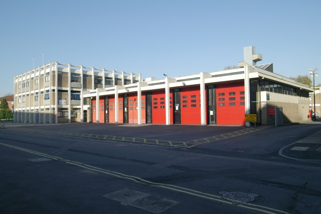 Rewley Road (Oxford) fire station, Rewley Road, Oxford, Oxfordshire